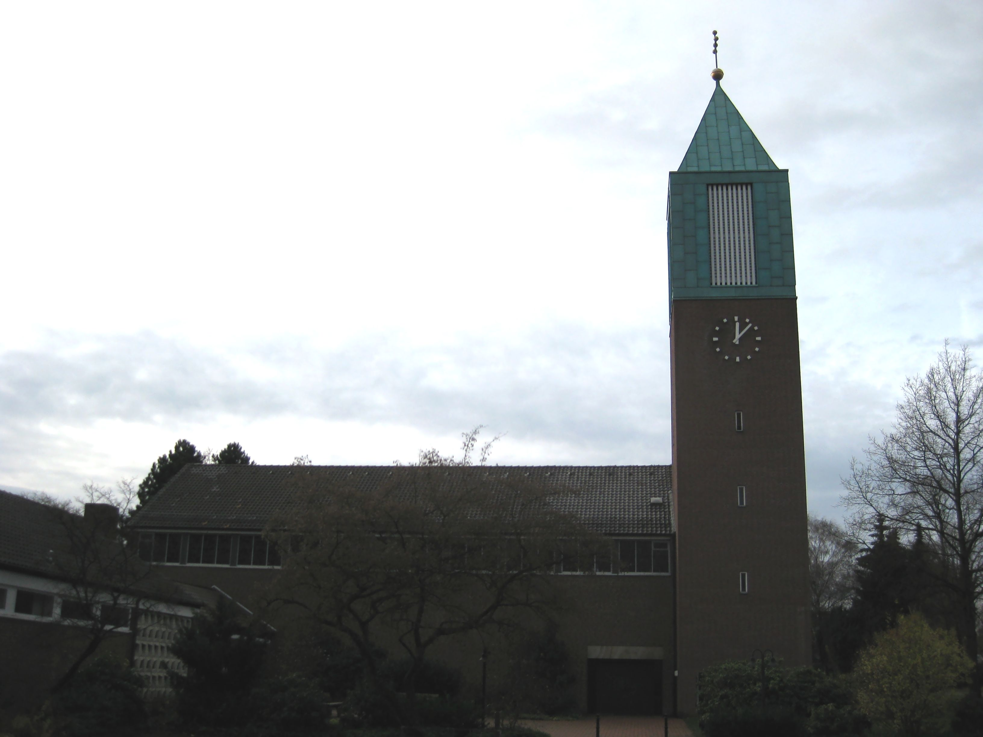 lutheran parish church “Auferstehungskirche” in Herford-Laar, built in 1962